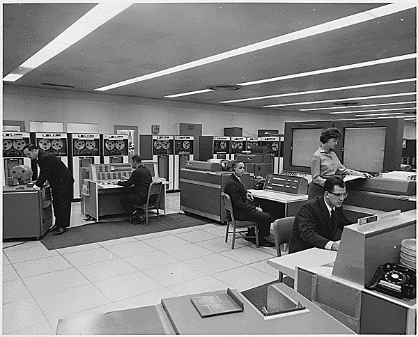 NASA mission control computer room with dual IBM 7090's, apparently taken around the time of the Mercury Atlas 6 (MA-6) mission in 1962. From US National Archives and Record Administration ARC system. Creator: National Aeronautics and Space Administration. (10/01/1958 - ) ( Most Recent) Type of Archival Materials: Photographs and other Graphic Materials Level of Description: Item from Record Group 255: Records of the National Aeronautics and Space Administration, 1903 - 1988 Location:NARA's Southwest Region (Fort Worth) (NRFFA), 501 West Felix Street, Building 1, Fort Worth, TX 76115-3405 PHONE: 817-831-5620, FAX: 817-334-5621, Part of: File Unit: MA - 6 Photo -- CCK's Personal Copy (Christopher C. Kraft), Scope & Content Note: This is a photograph of a computer room at NASA. Access Restrictions: Unrestricted Use Restrictions: Unrestricted Specific Records Type:scientific illustration Variant Control Number(s): NAIL Control Number: NRFF-255-70-37(6)-CCK1